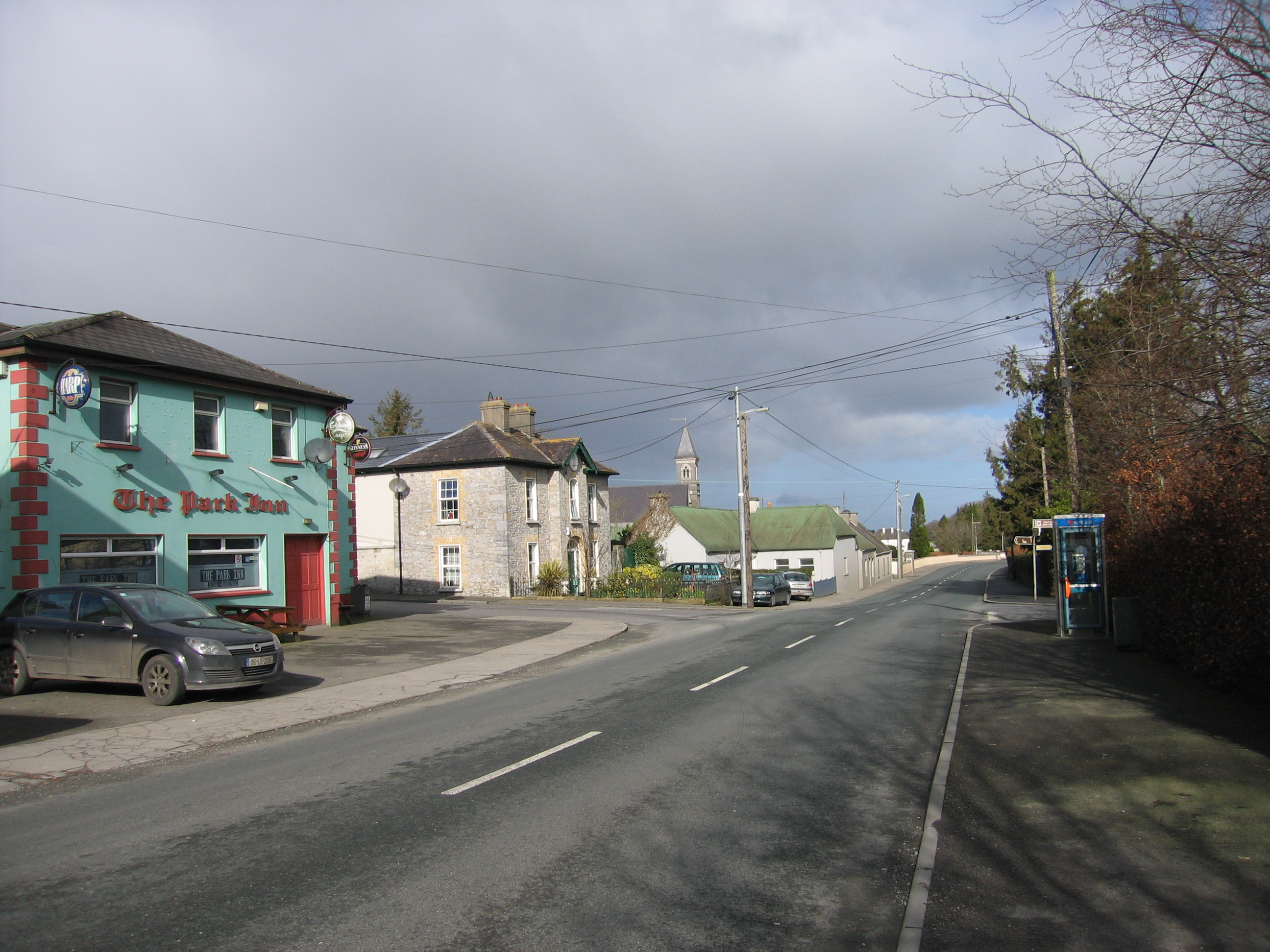 Emo Village, County Laois (Sarah777 23:40, 19 March 2007 (UTC))